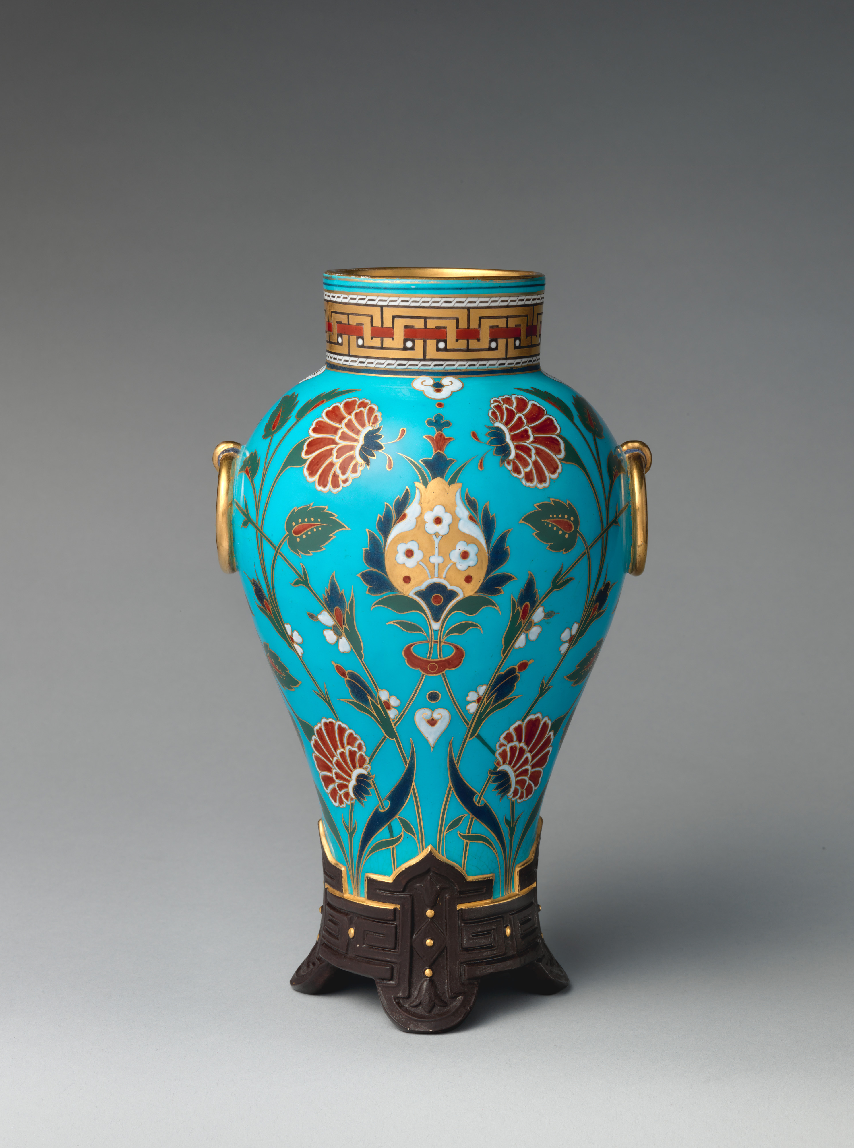 British; Vase; Ceramics-Porcelain